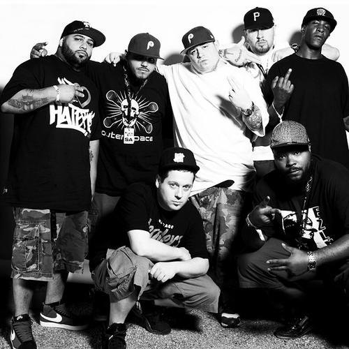 Army of the Pharaohs in 2014; Army of the Pharaohs members including; Crypt the Warchild, Planetary, Vinnie Paz, Apathy, Jus Alah, Reef the Lost Cauze and Esoteric.